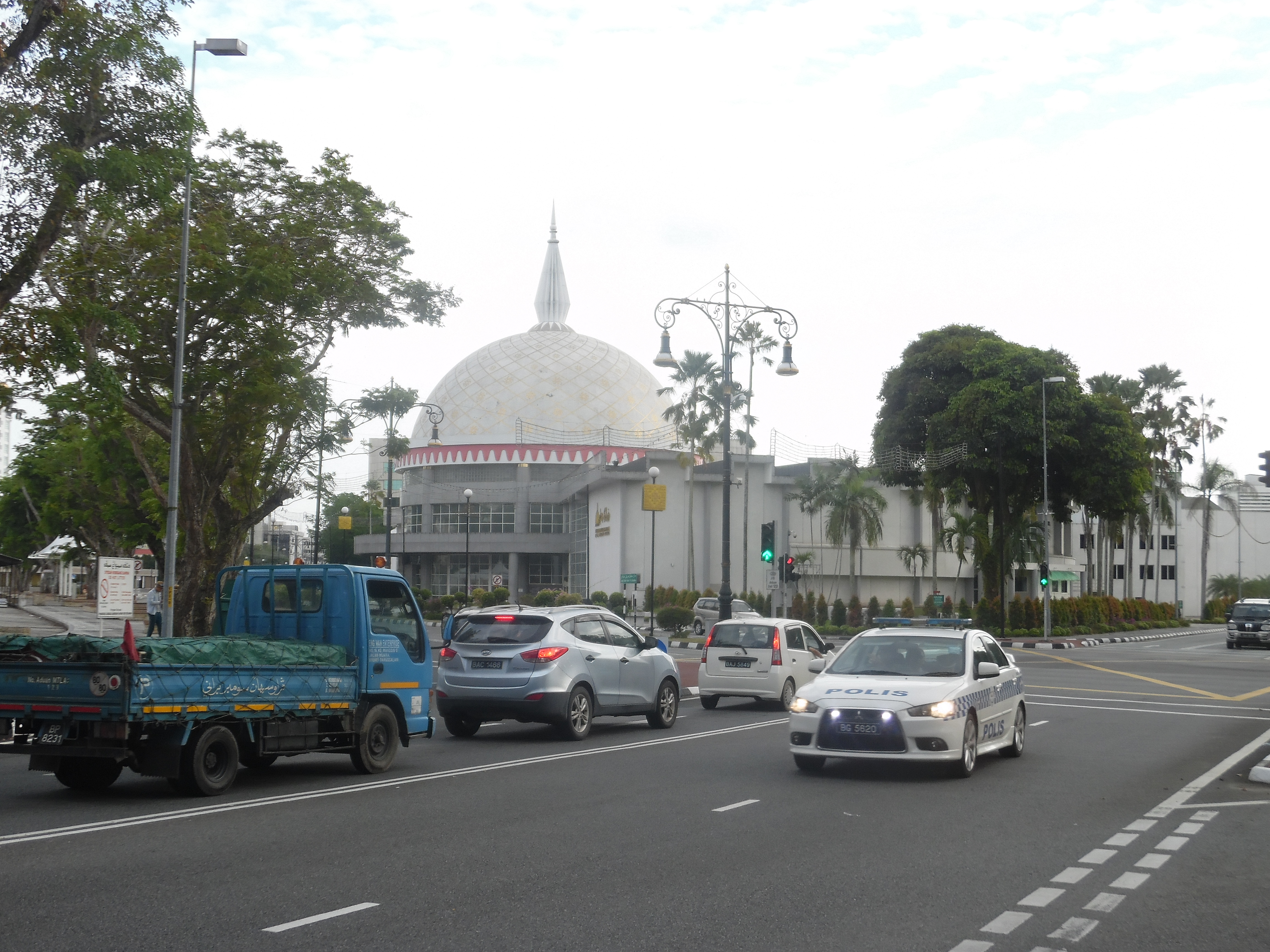 A vehicle from the Royal Brunei Police on route to a call in Bandar Seri Begawan